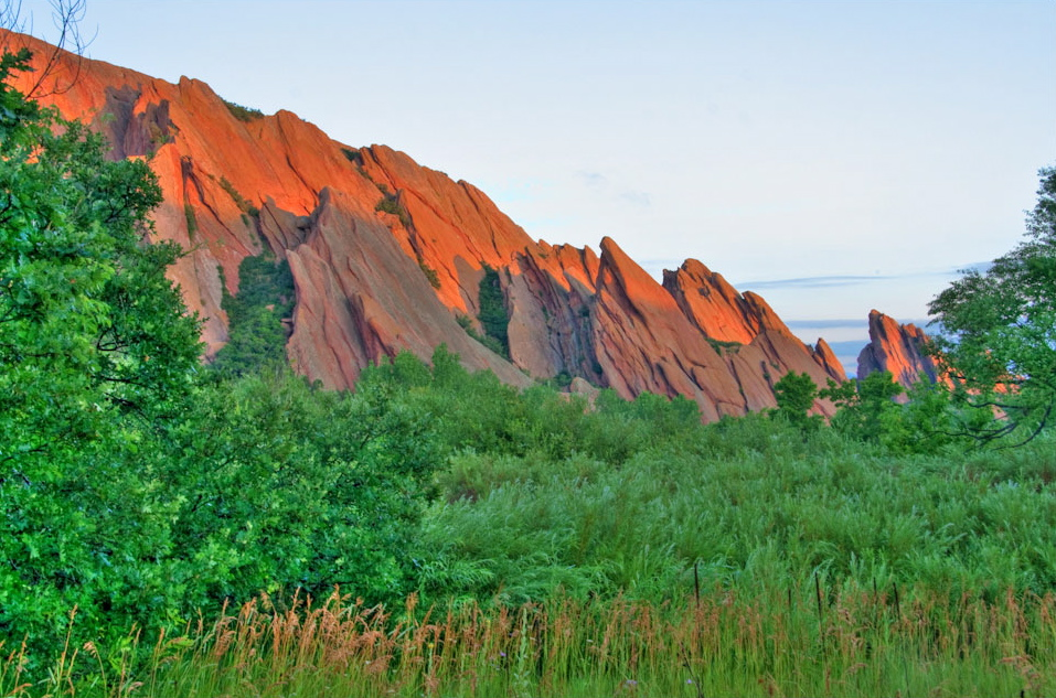 The sun is peaking over the cliff.